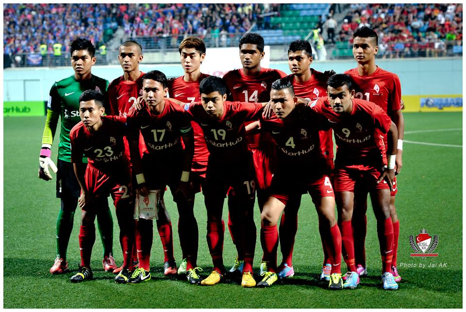 The starting eleven of the LionsXII against Johor Darul Takzim FC during the 2013 Malaysian Super League at Jalan Besar Stadium, Singapore.